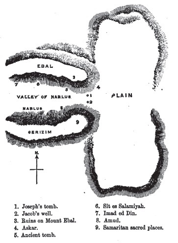 Plan of Nablus with landmarks